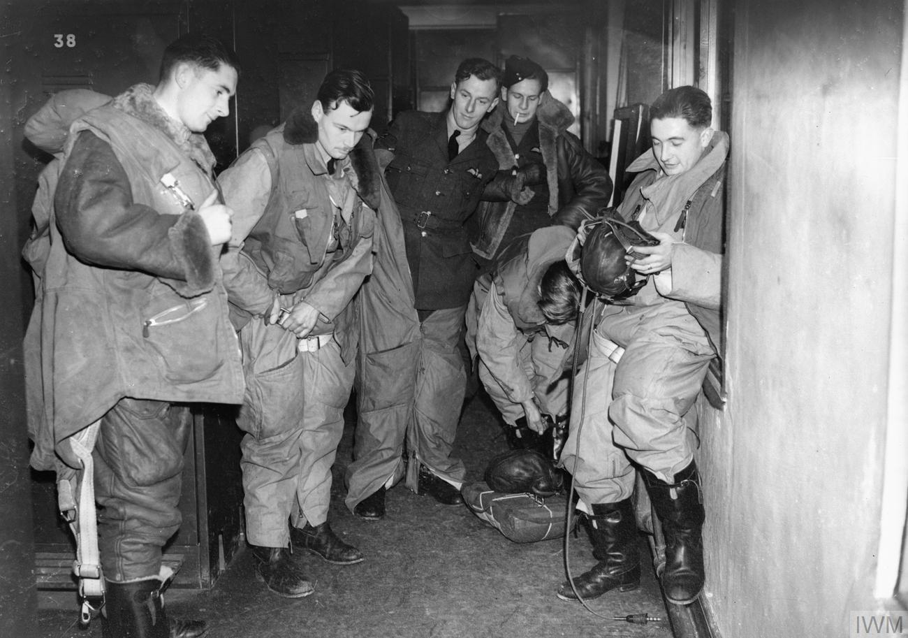 RAF Bomber Command 1940 Hampden bomber crews of No. 61 Squadron at Hemswell putting on flying kit, 16 October 1940.